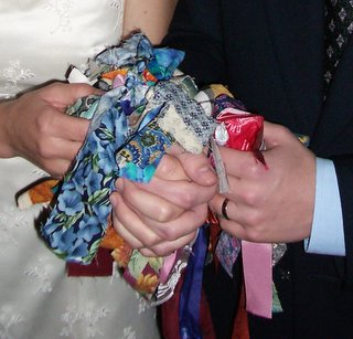 An example of a handfasting knot tied by all the guest at a wedding held in Upstate New York in 2005. Photo taken by TheCathedral and donated to the public domain.